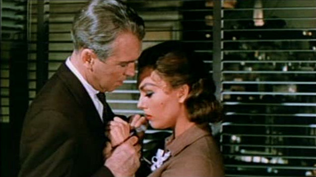 Screenshot from the original 1958 theatrical trailer for the film VertigoFrame taken from MPEG4. Note: This version of the original 1958 theatrical trailer is of significantly lower quality than the 1996 restoration theatrical trailer.